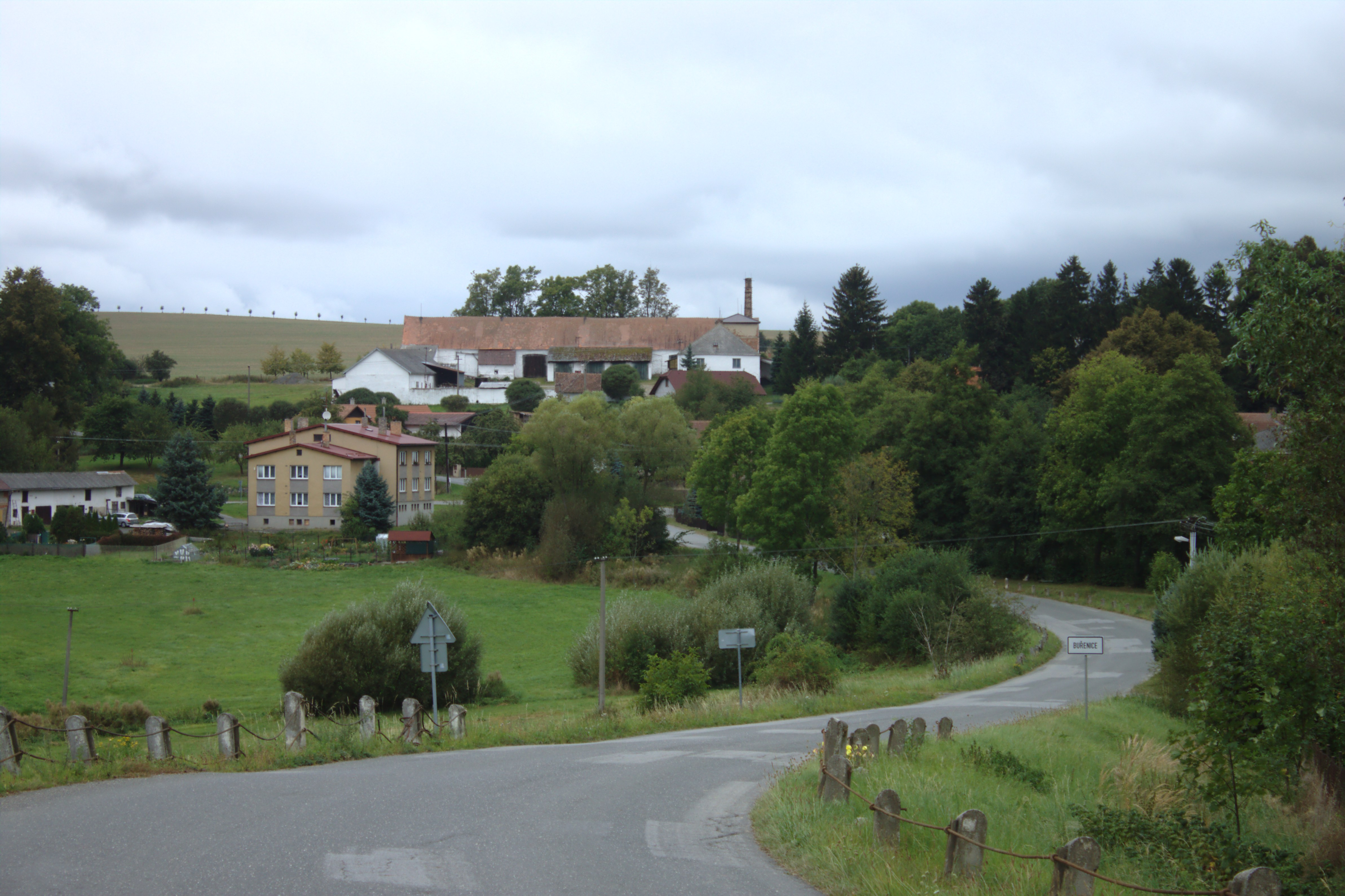 A road south from the village of Buřenice, Vysočina Region, CZ